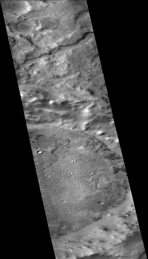 Eastern side of Kuiper Crater, as seen by ctx